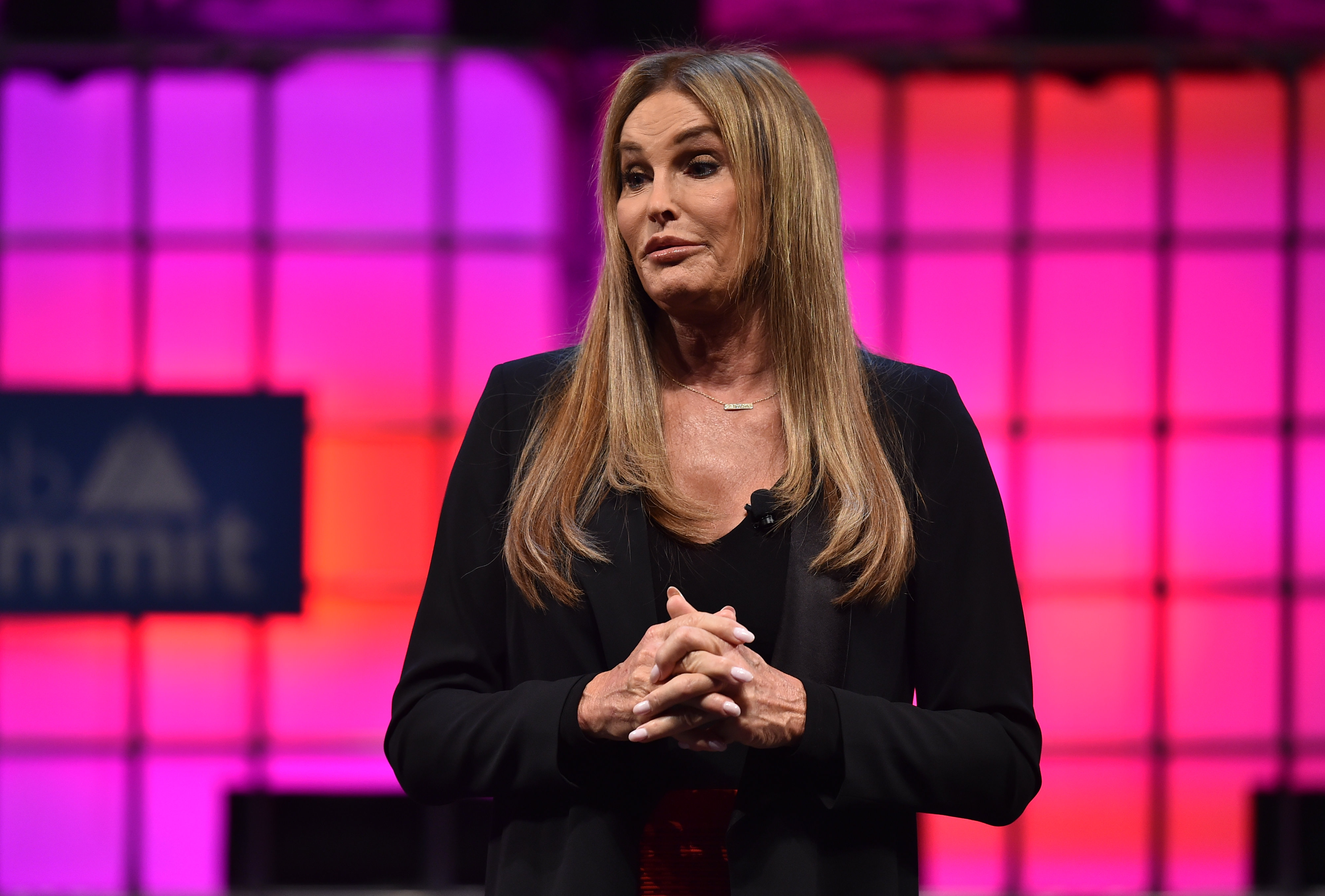 9 November 2017; Caitlyn Jenner, Olympian & Advocate of Transgender Rights, on Centre Stage during day three of Web Summit 2017 at Altice Arena in Lisbon. Photo by David Fitzgerald/Web Summit via Sportsfile